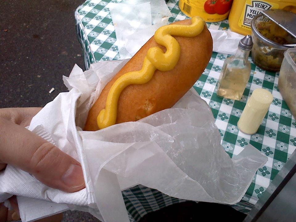 Classic corn dog with mustard, from a New England county fair.